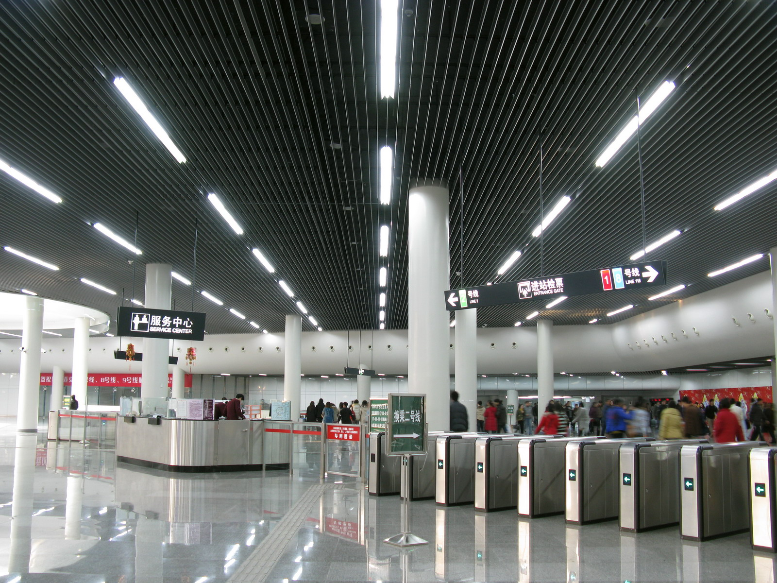 人民廣場站換乘大堂 Interchange Concourse of People's Square Station